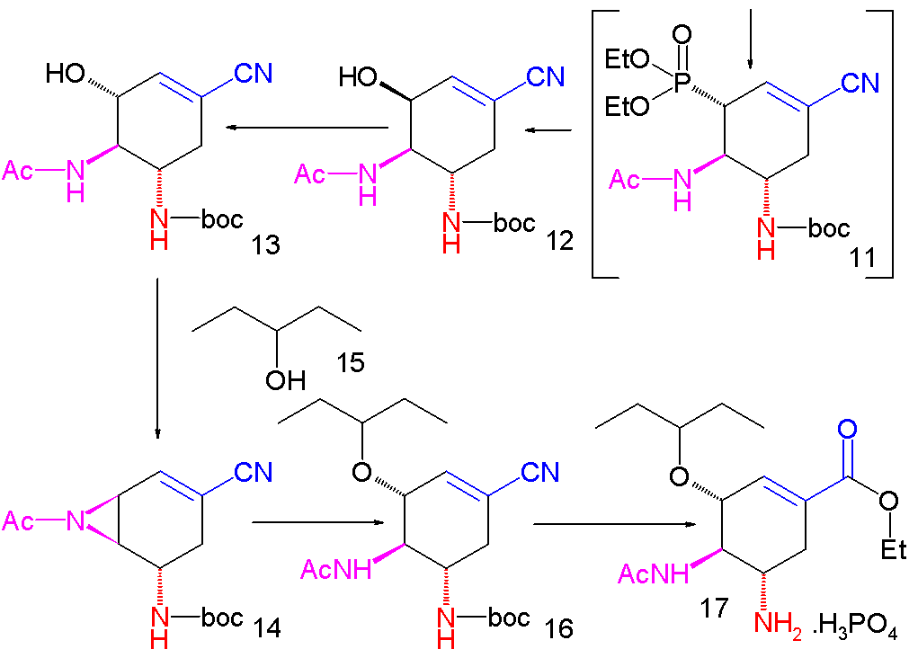 ShibasakiTamifluSynthese